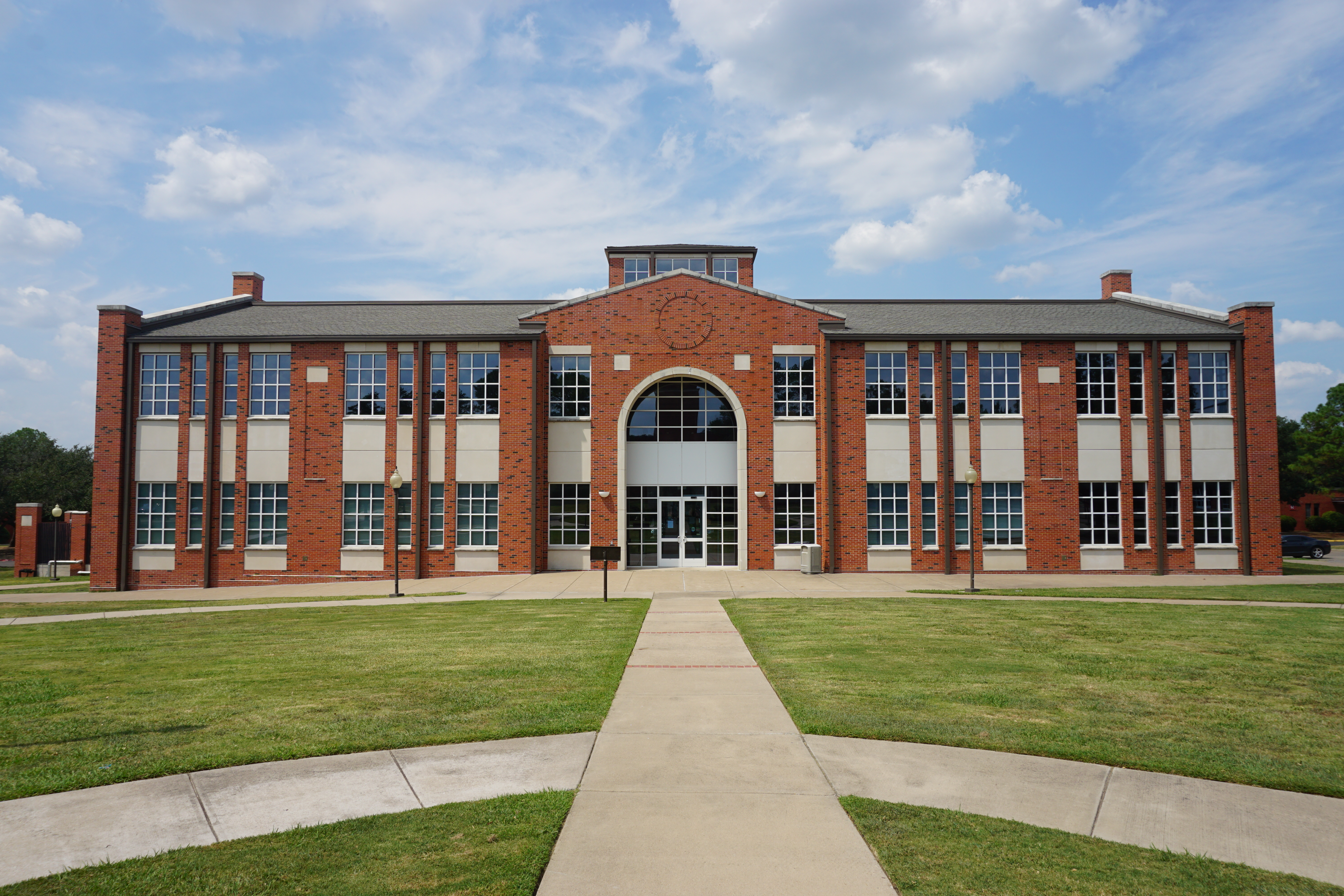 The Richard M. Sanchez Library on the campus of Navarro College in Corsicana, Texas (United States).